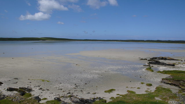 Loch Bhuirgh A wide shallow loch that is well populated by waterfowl.